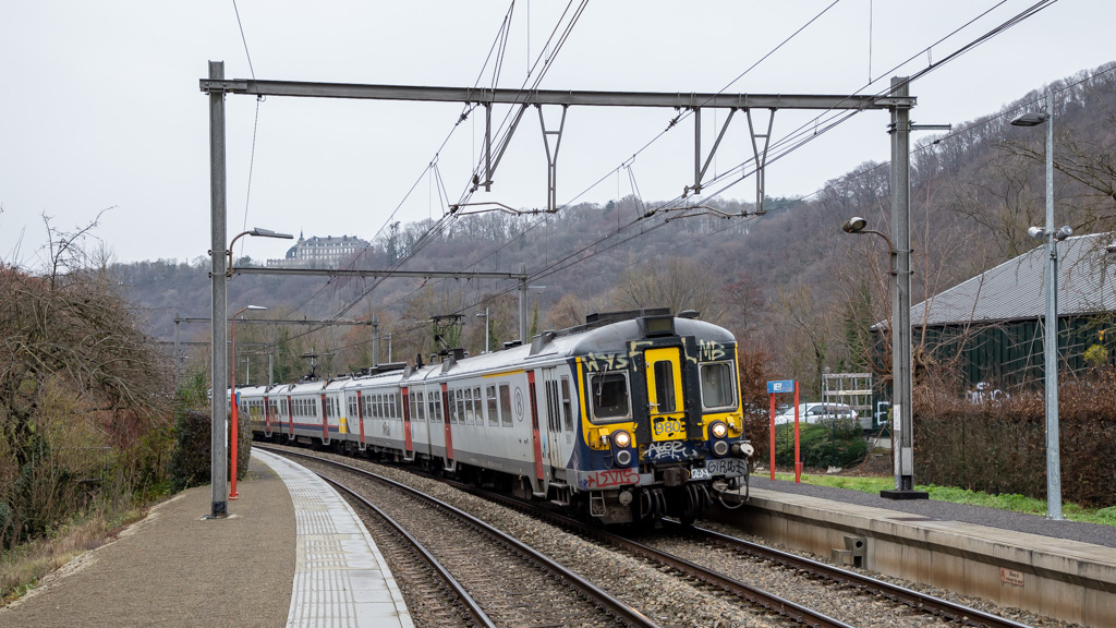 Classical EMU's 980, 628 & 659 with Local service 5558 Liers - Marloie in Méry station.